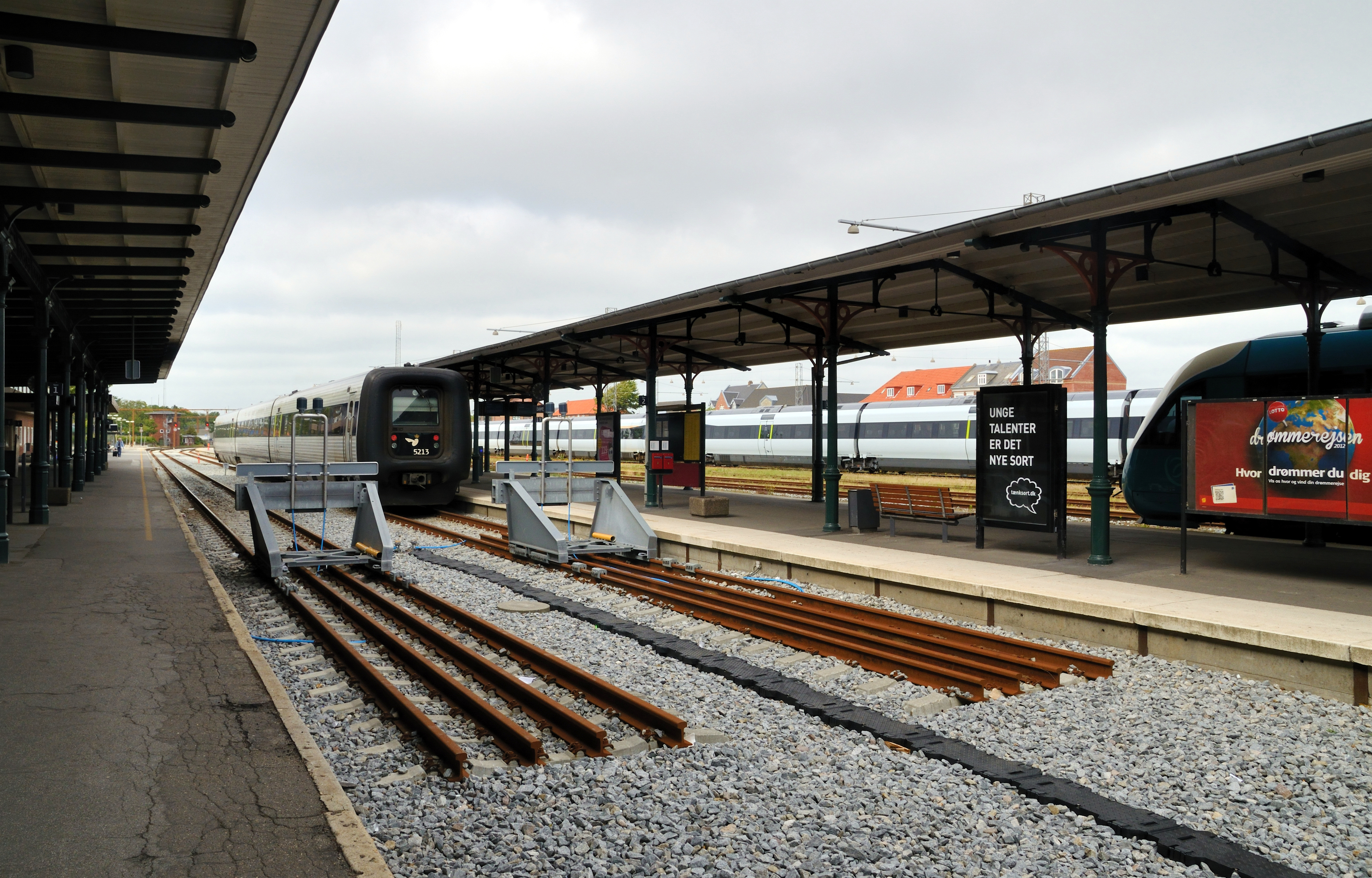 Esbjerg: central station